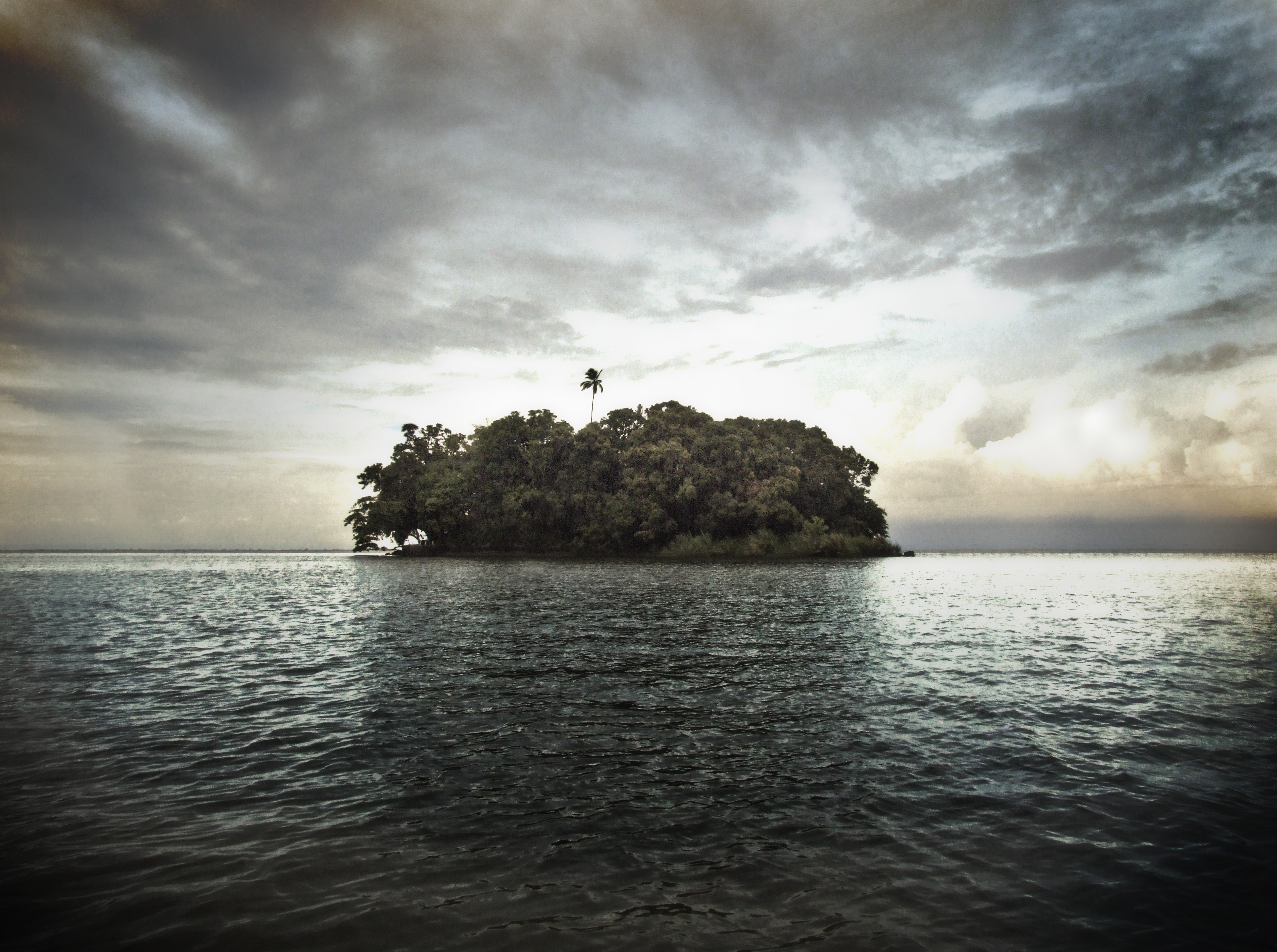 Picture showing a volcanic island in Cocibolca Lake, Granada, Nicaragua.